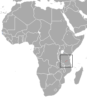 Sanje Mangabey (Cercocebus sanjei) range